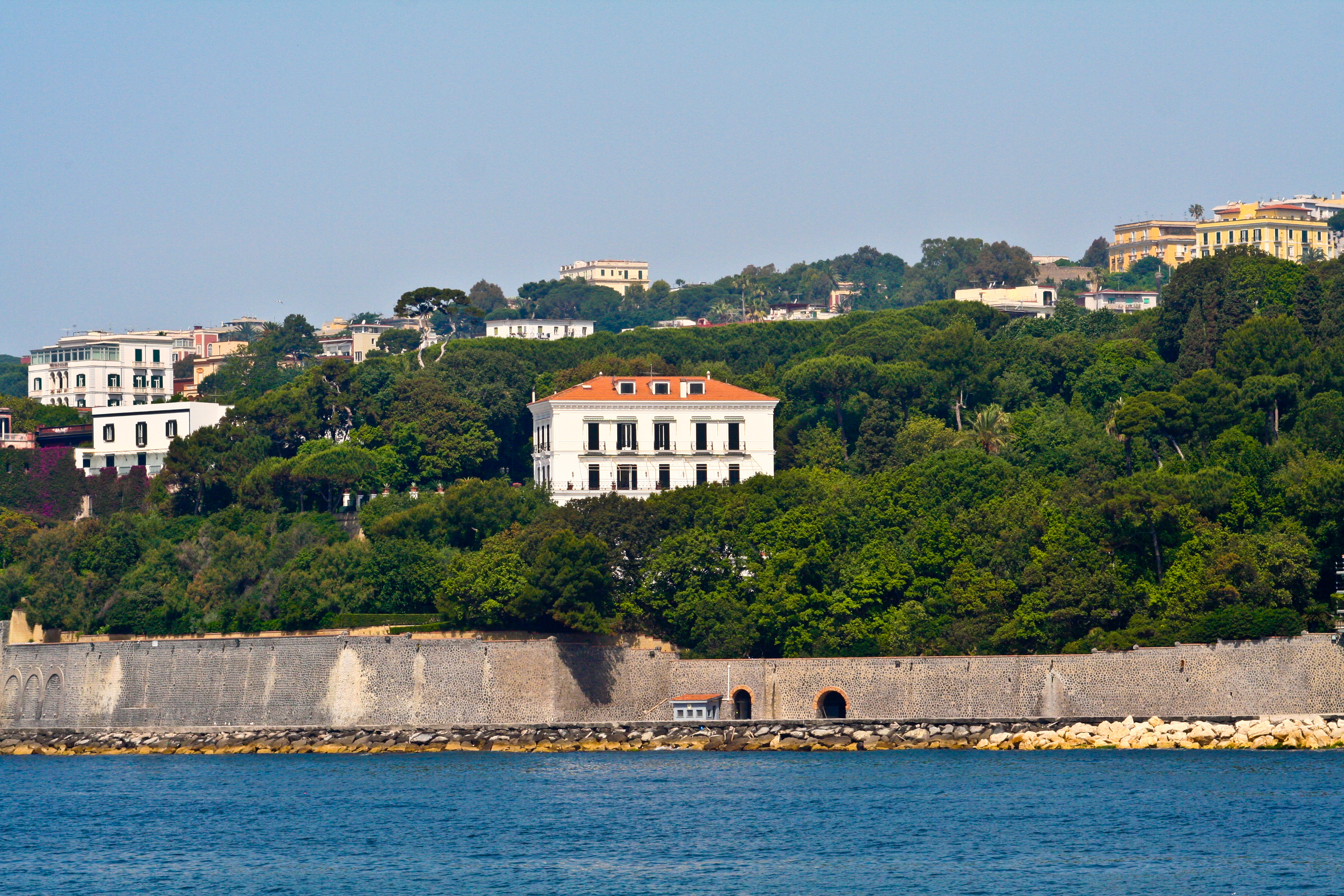 Villa Rosebery, Napoli